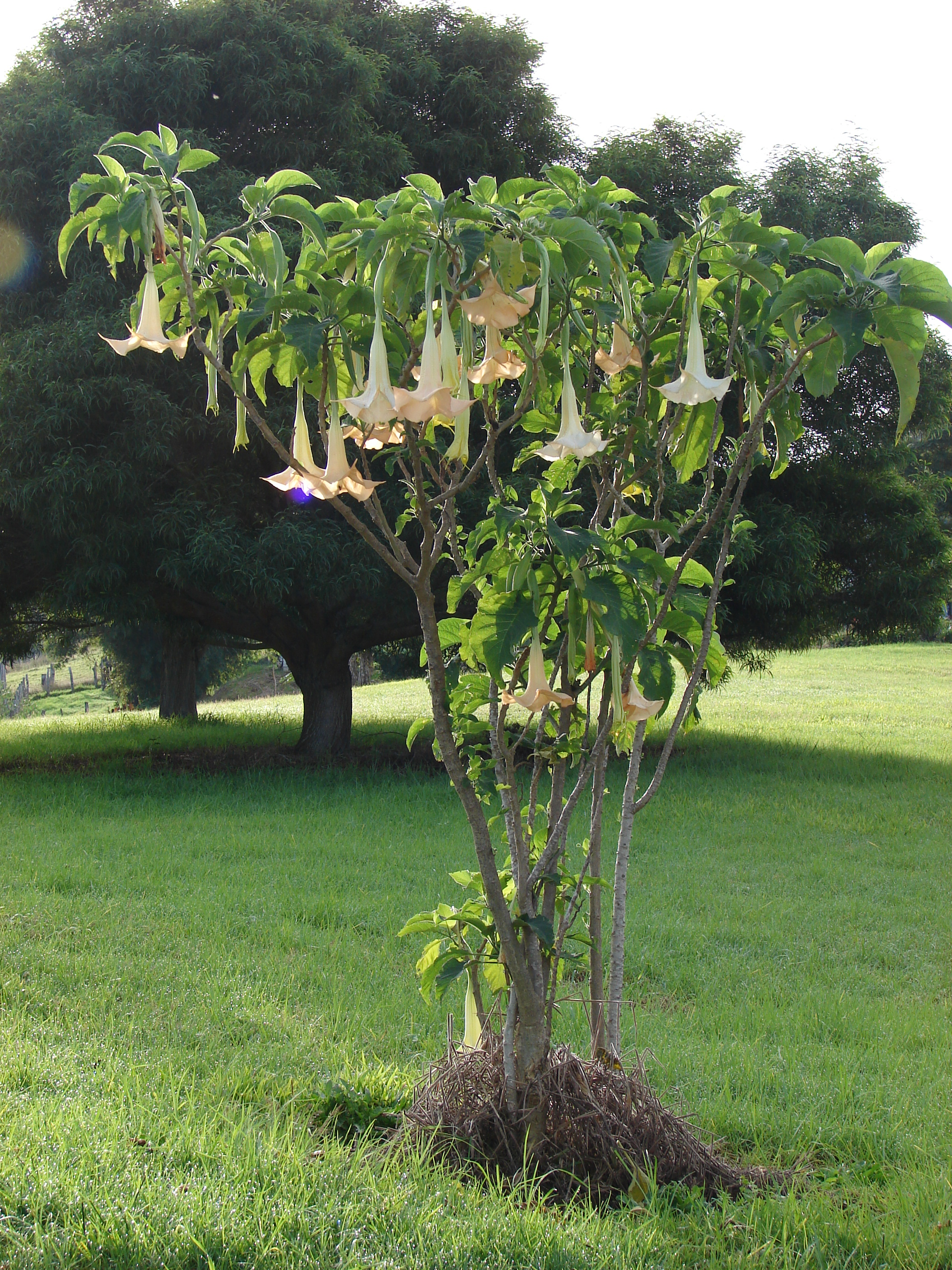 Brugmansia x candida (flowering habit). Location: Maui, Olinda